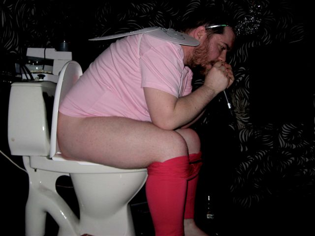 Taken from